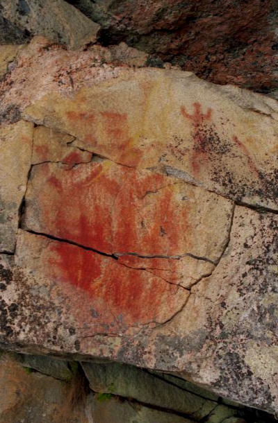 Cave painting in Kolmiköytisienvuori, Ruokolahti, Finland